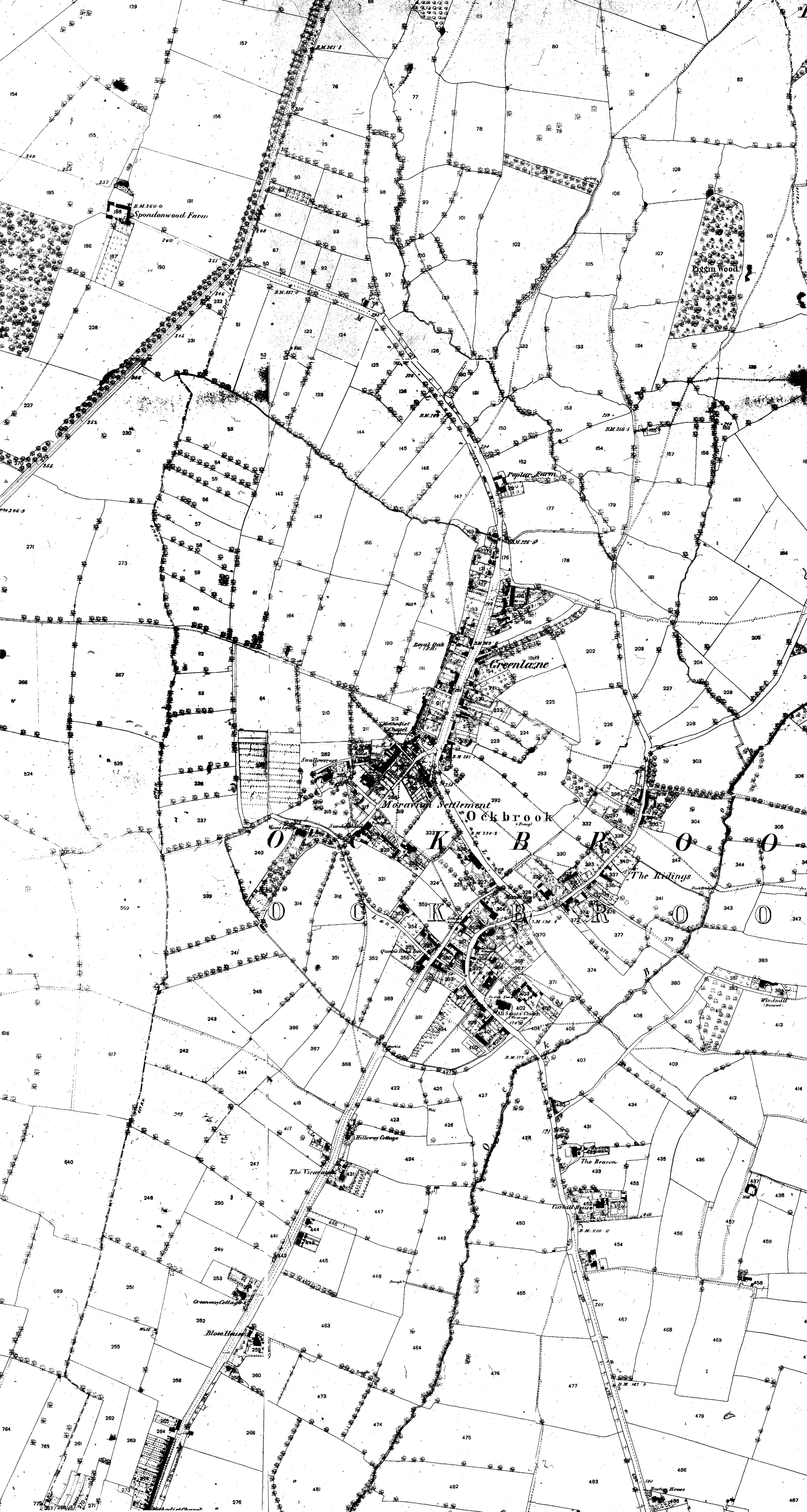 Contiguous extracts from several OS Edition 1 1880 25inch sheets centered on Ockbrook, Derbyshire, England.